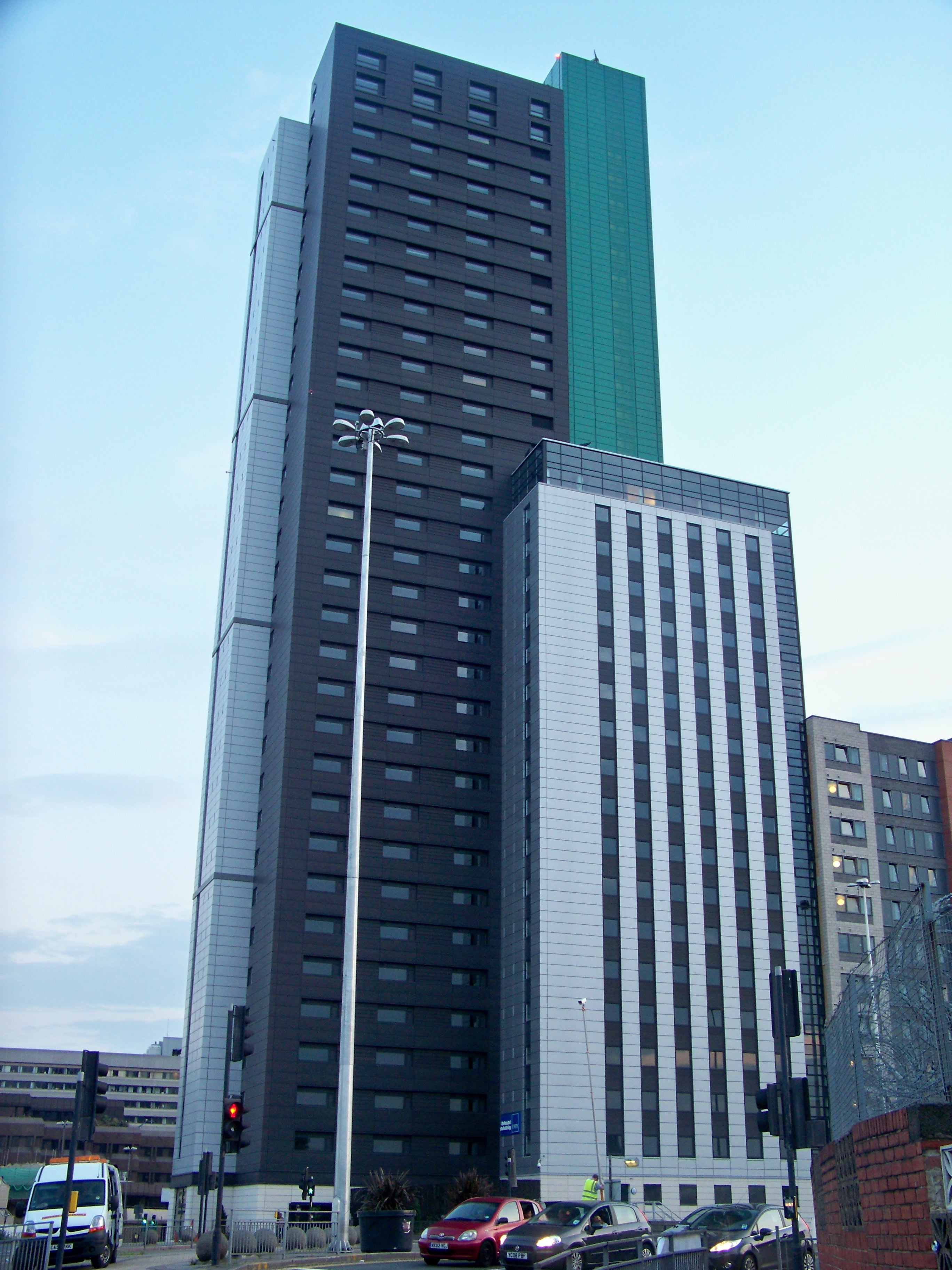 The Sky Plaza in Leeds, West Yorkshire, UK. The building is student accomodation for Leeds Metropolitan University. Taken on the evening of Wednesday 1st July 2009.